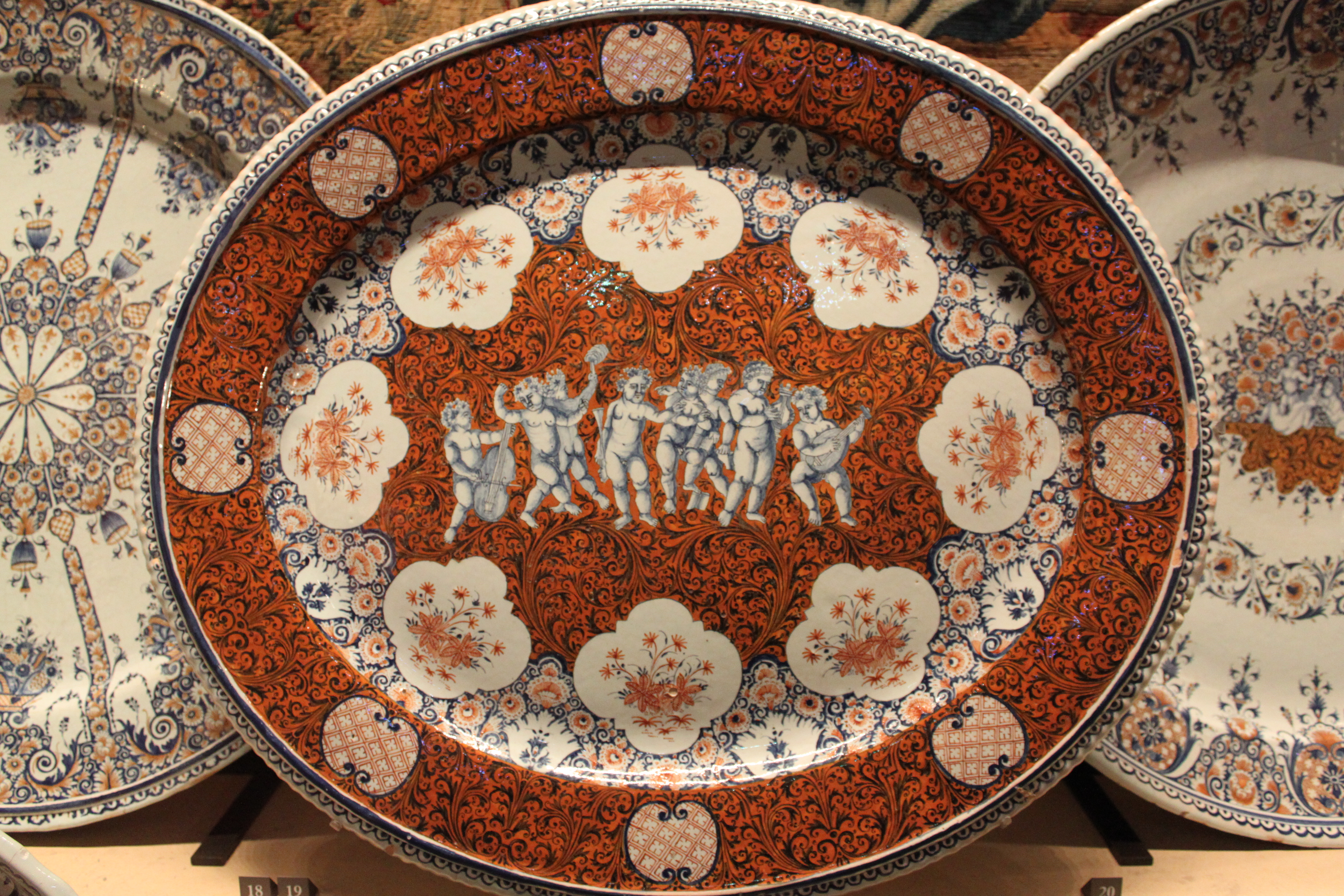 Large oval dish with children playing music - Rouen - 1700-1720- Louvre museum - OA 6590